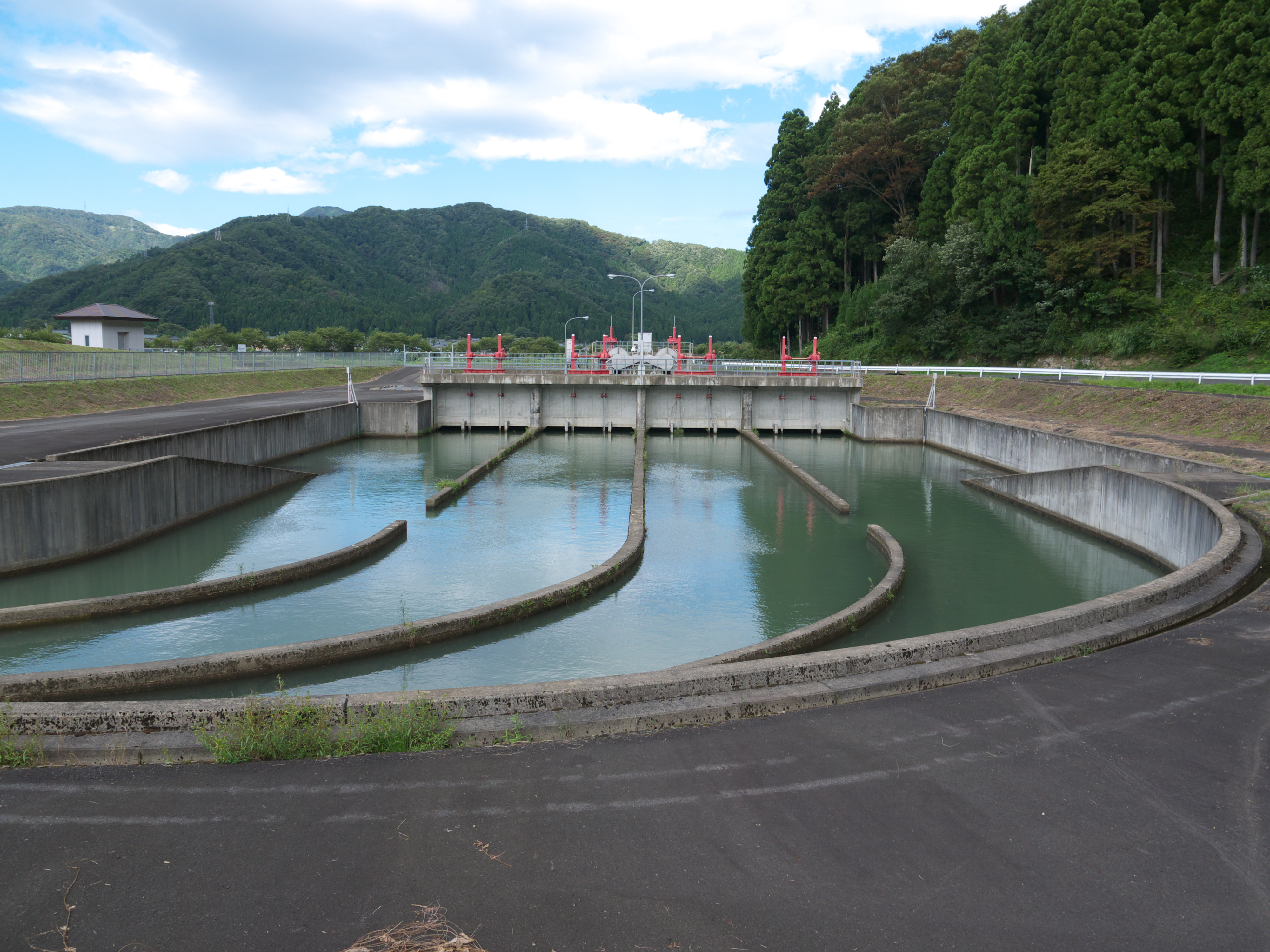 Yaotome Head Works grit chamber